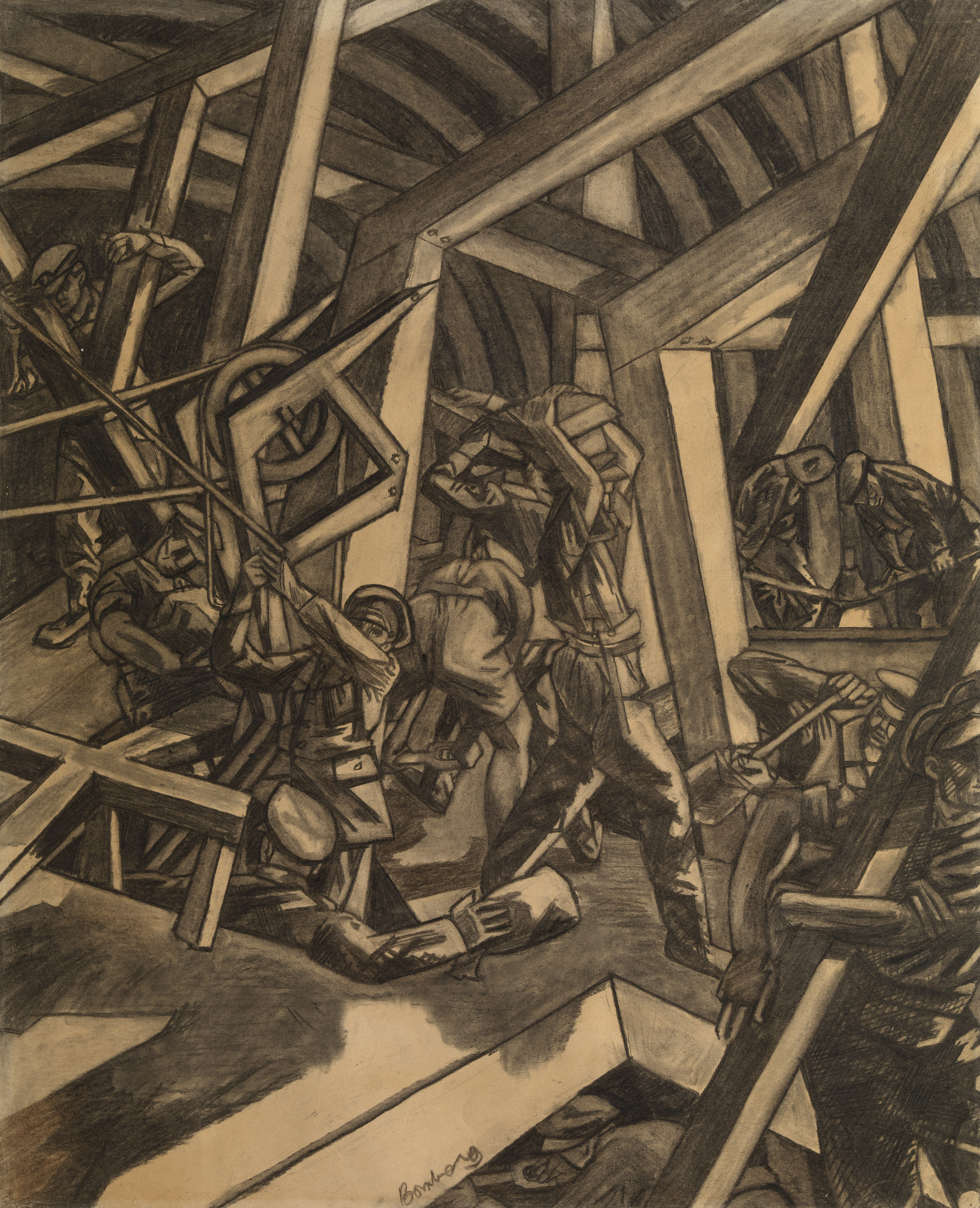 Sappers at work - Canadian Tunnelling Company, R14, St Eloi image: An intense scene of sappers from a Canadian Tunnelling Company of the Royal Engineers constructing a tunnel. The men are digging, moving earth and using pulleys and levers to erect support timbers within the interior.